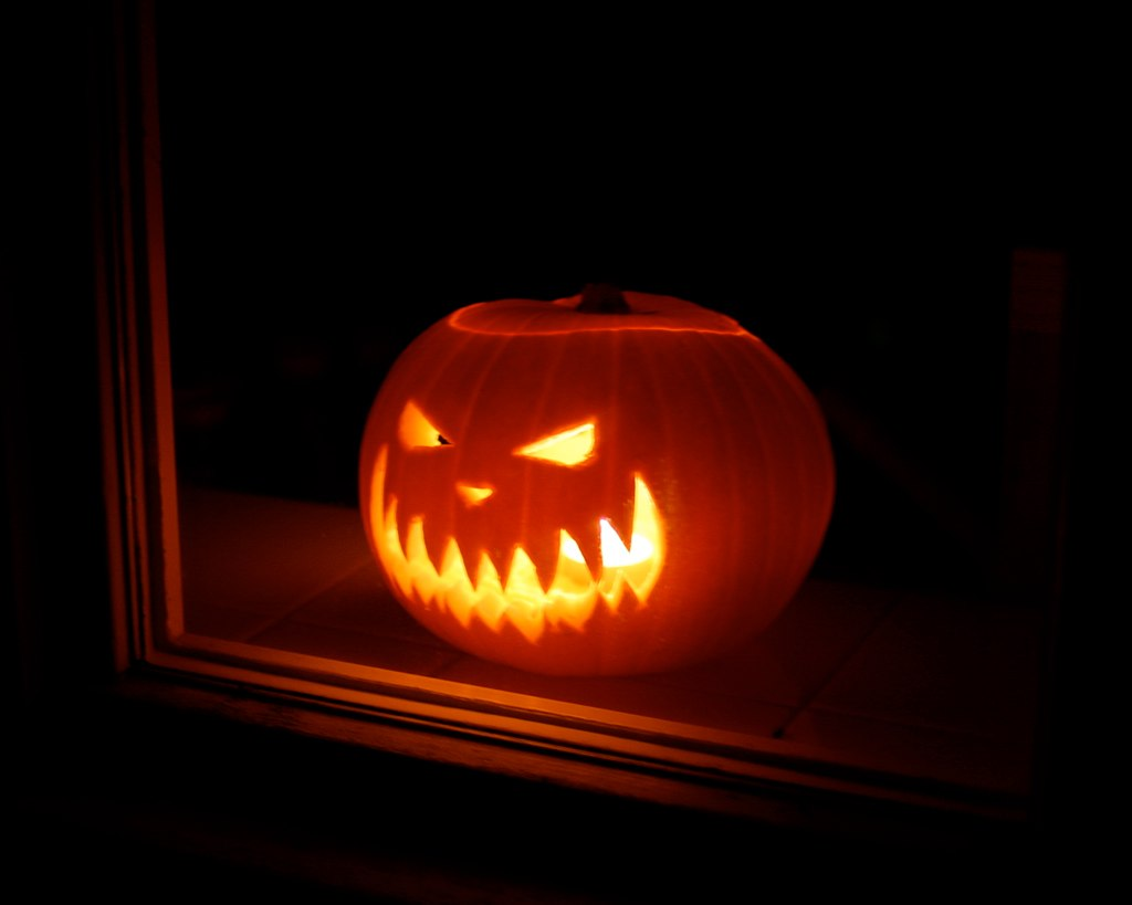 Lit Jack-o'-lantern glowing menacingly.